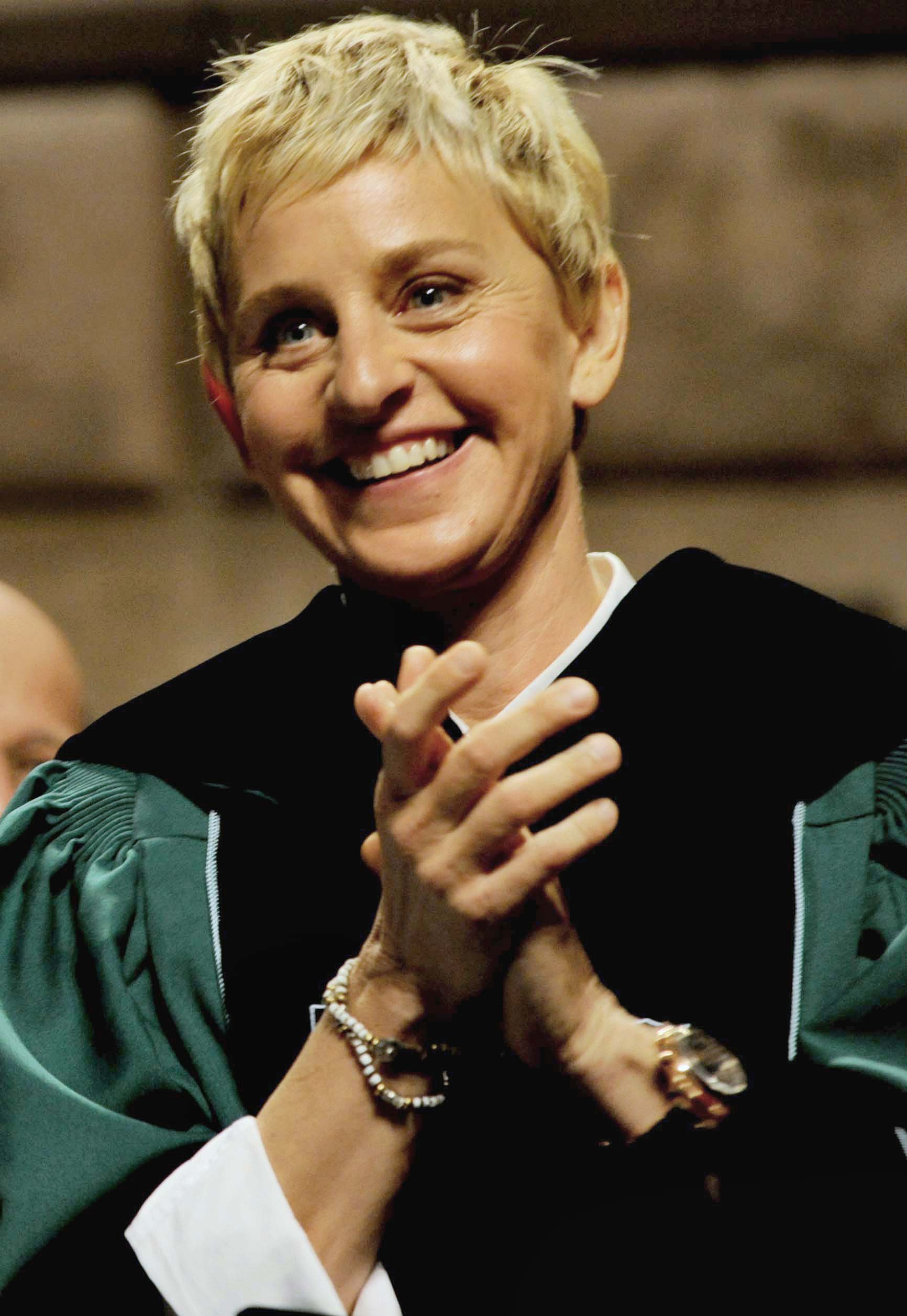 Ellen DeGeneres in 2009.